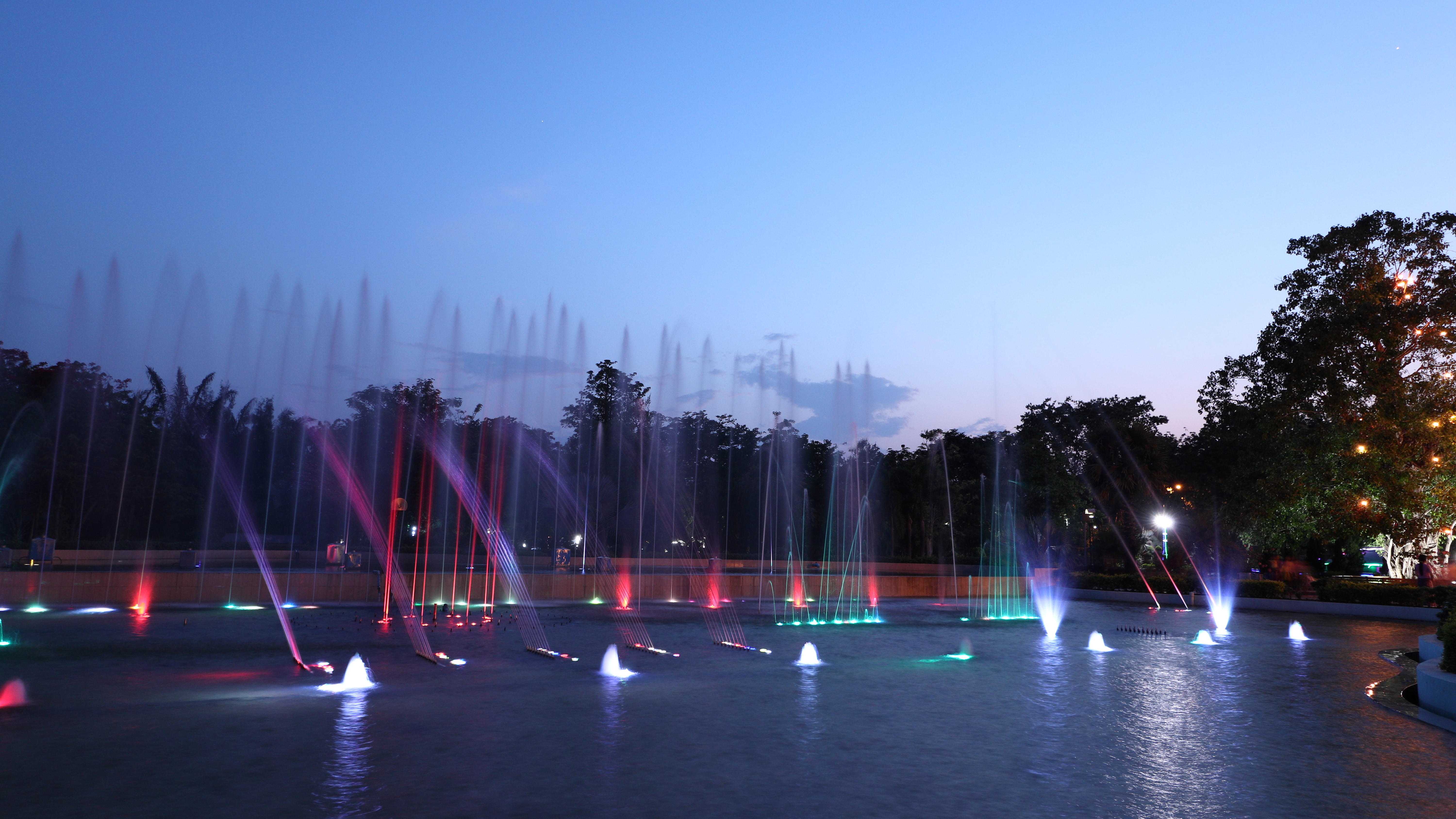 Water fountain in Naypyitaw, Burma/Myanmar. မြန်မာဘာသာ: မြန်မာနိုင်ငံ၊ နေပြည်တော်၊ ရေပန်းဥယျာဉ်။